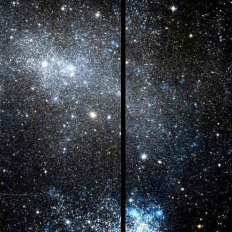 UGCA 86 - Hubble Space Telescope - Hubble Legacy Archive